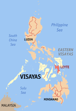 Map of the Philippines showing the location of Leyte